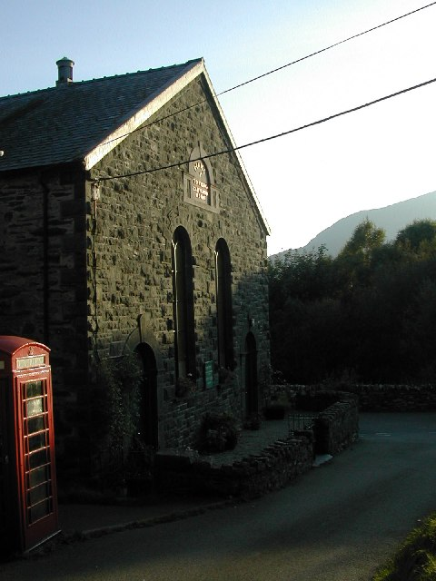 Chapel and red Phone Box at Nantmor. This old fashioned telephone box is next to the chapel at Nantmor. The telephone is marked much more clearly on the map than the chapel!